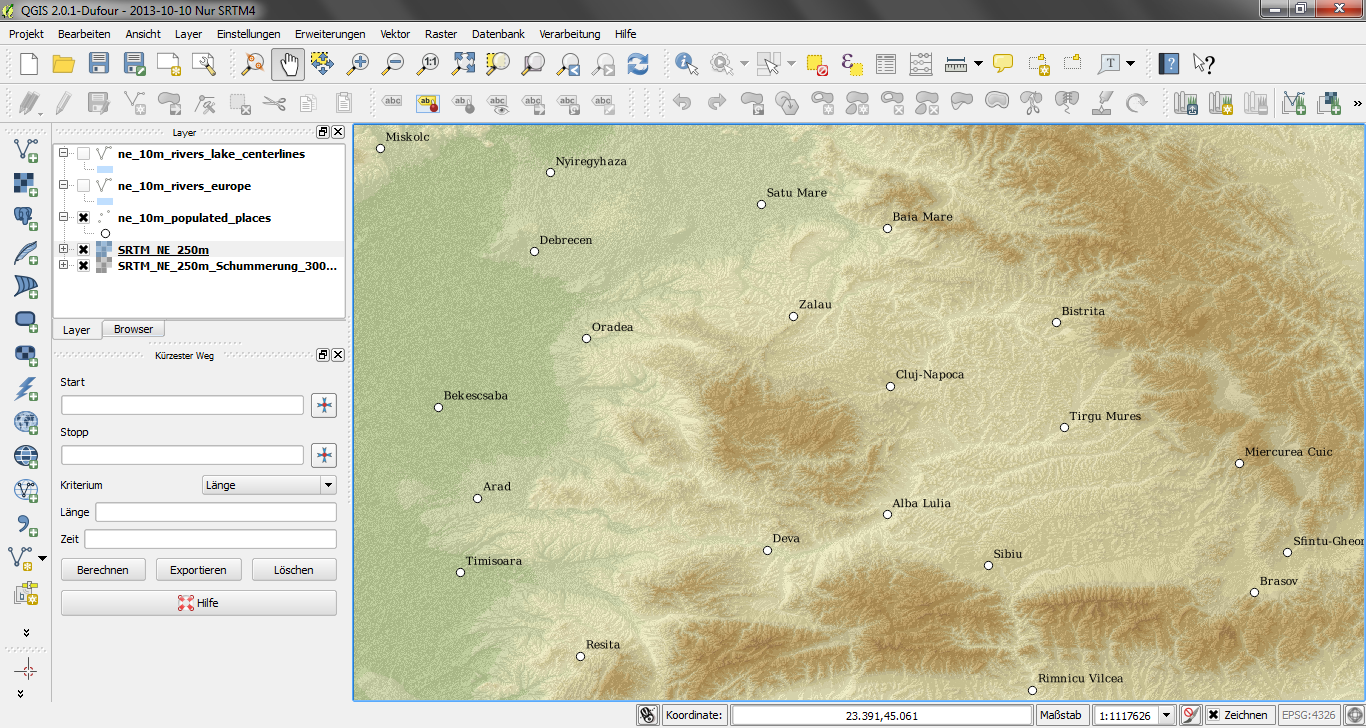 Screenshot of QGIS Version 2.0.1 showing a relief made with SRTM4 data and populated places ( running under Windows 7.